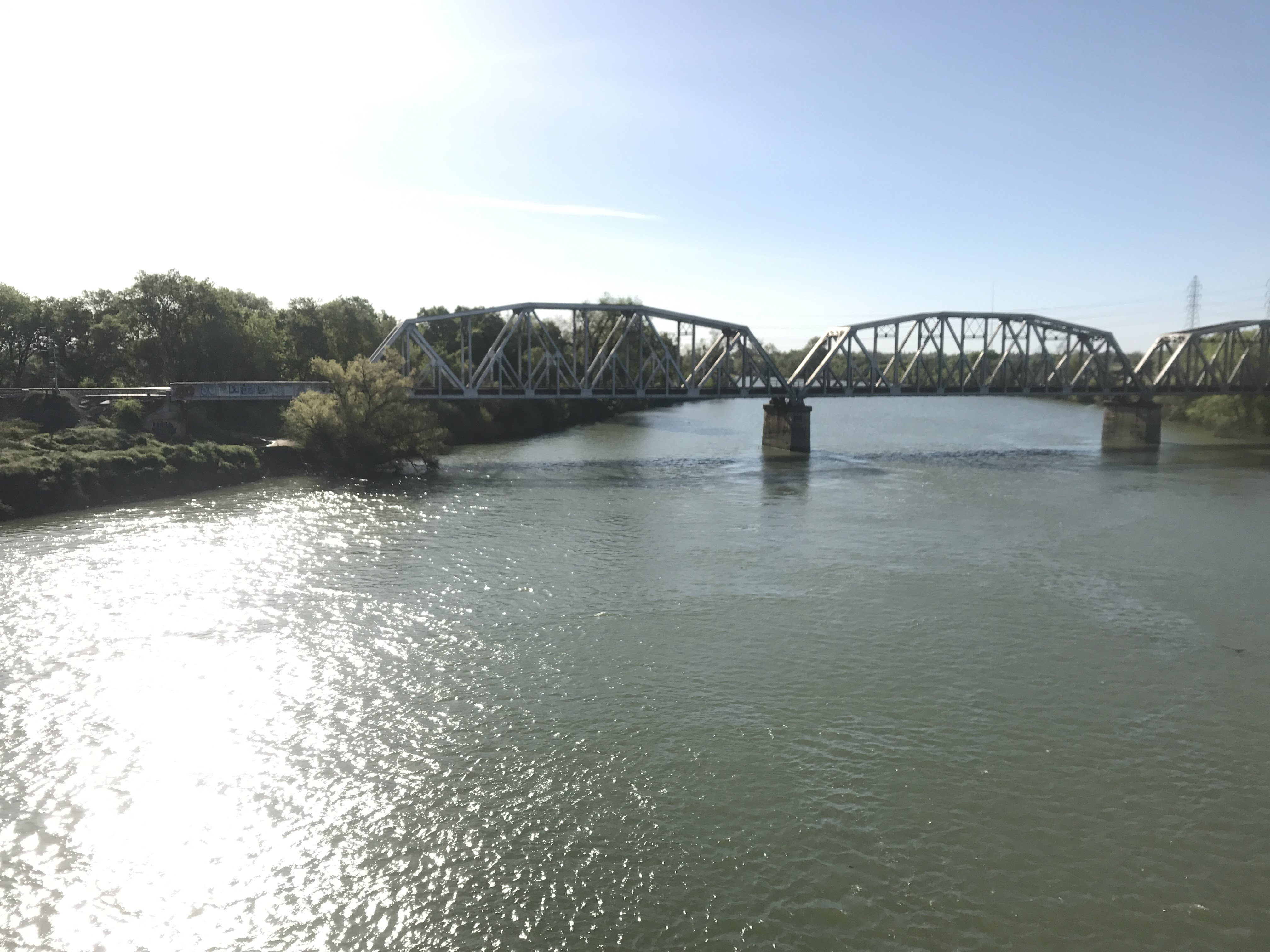 American River at the Jedediah Memorial Trail Bike Overpass